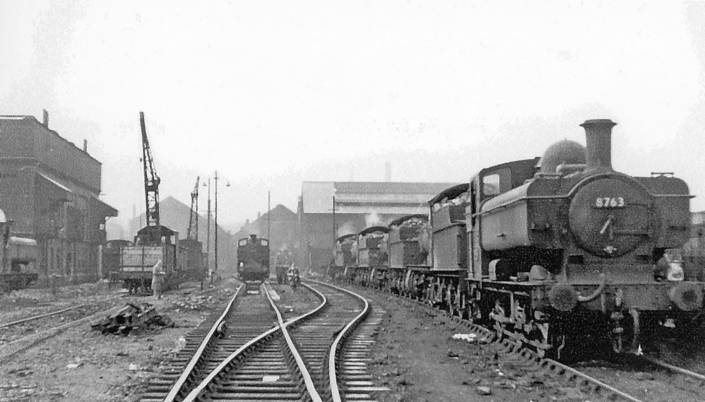 Old Oak Common Locomotive Depot. View westward beside the double-sided coaling plant, towards the quadruple roundhouse Shed. This was the main London Locomotive Depot for Paddington and the largest on the ex-Great Western Railway system, providing all main-line passenger and much of the freight motive power for the London Division, together with countless 0-6-0T engines for empty stock, shunting and local goods trips, also 2-6-2Ts for suburban passenger services. Coded 81A by BR, it had an allocation (in 1954) of 167 steam locomotives and 10 Diesel-electric shunters, also the two experimental gas-turbines (Nos. 18000 and 18100) which were on trial on express services for several years. The steam engines comprised:- 69 4-6-0s, 7 2-8-0s, 4 0-6-0s, 14 2-6-2Ts and 68 0-6-0Ts, also 5 BR Standard 4-6-2s. The Depot closed to steam on 22/3/65 and a much modified Depot was retained for Diesel locomotives, later becoming a Traction Maintenance Depot, until 2009. The photograph features the preparation roads, with 57XX 0-6-0T No. 8763 heading a row of mainly goods engines; on the left cranes are loading ashes and one side of the coaling stage is visible; the roundhouses are ahead.